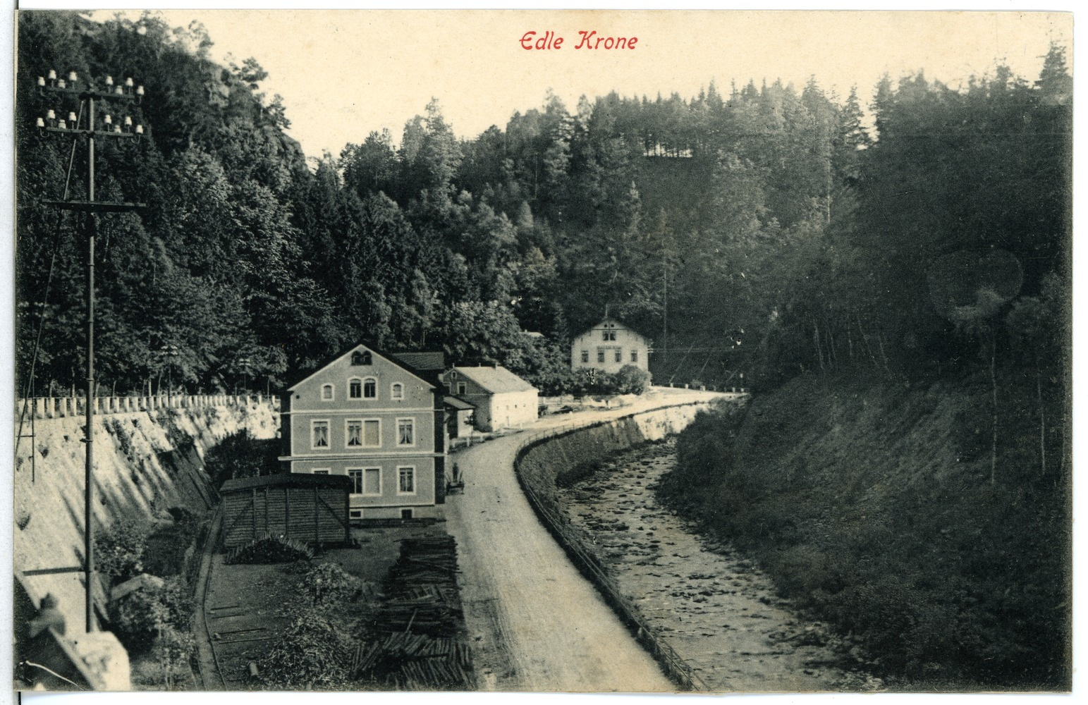 This postcard is from publisher Brück & Sohn in Meißen ( This postcard has a unique number 10574 and is available in a higher resolution at the publisher. This images was uploaded in a cooperation project between Wikipedians and the publisher.